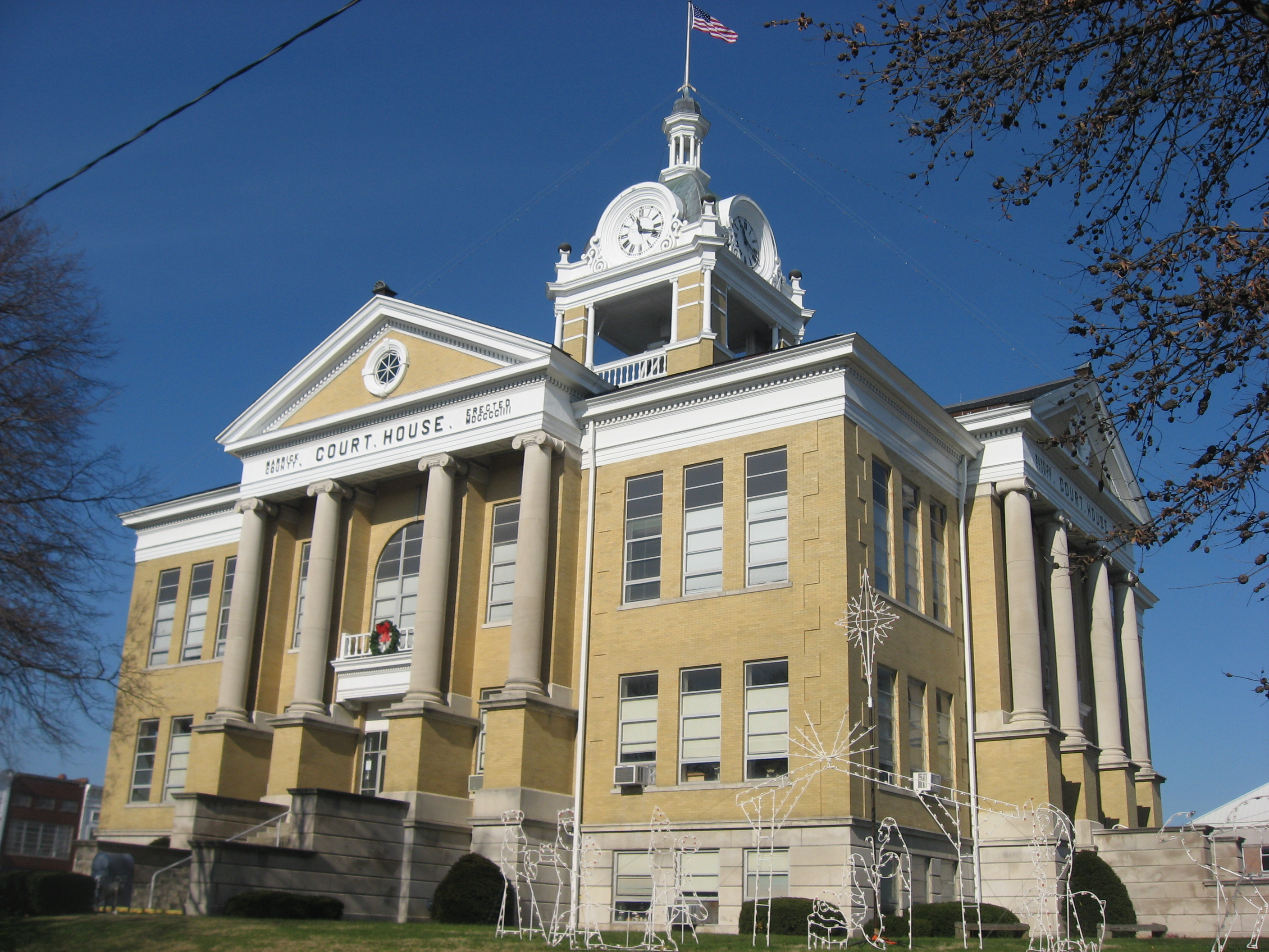 Southern and eastern sides of the Warrick County Courthouse, located on Courthouse Square in Boonville, Indiana, United States. Built in 1904, it is part of the Boonville Public Square Historic District. Please note that the time given by EXIF is wrong: the camera was still set for daylight savings time, rather than standard time, and I forgot to adjust for the fact that Warrick County is on Central Time rather than Eastern Time. This photograph was taken at 11:16 AM local time.